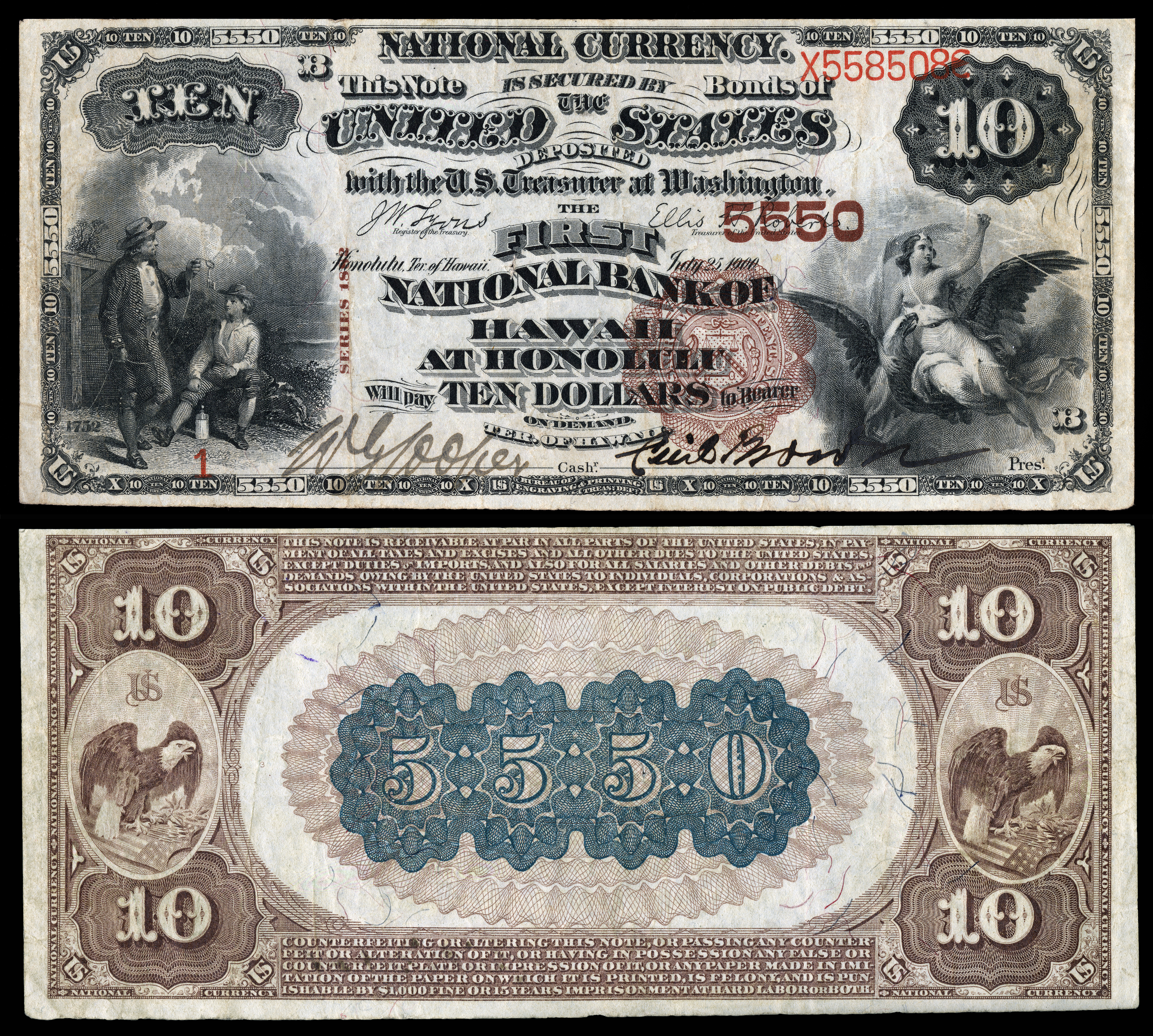 $10 Series 1882BB National Bank Note, The First National Bank of Honolulu at Hawaii (Charter #5550), the first and largest of the U.S. national banks of Hawaii. President Cecil Brown Cashier W.G. Cooper.